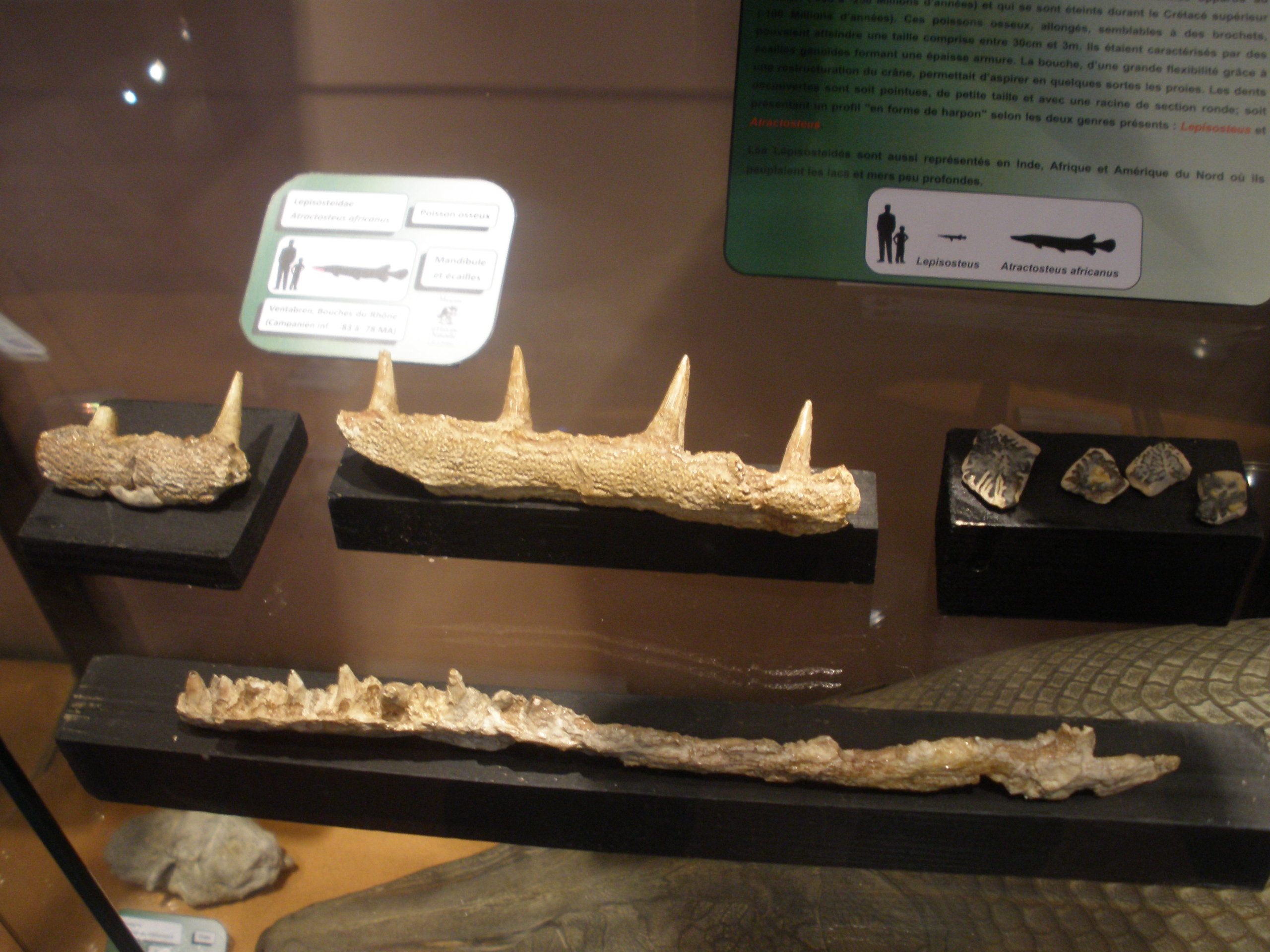 fossil of a gar